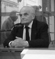 Michel Déon, a french author from the prestigious Académie Française visiting visiting his former high school, Lycée Massena in Nice, Nov 28th